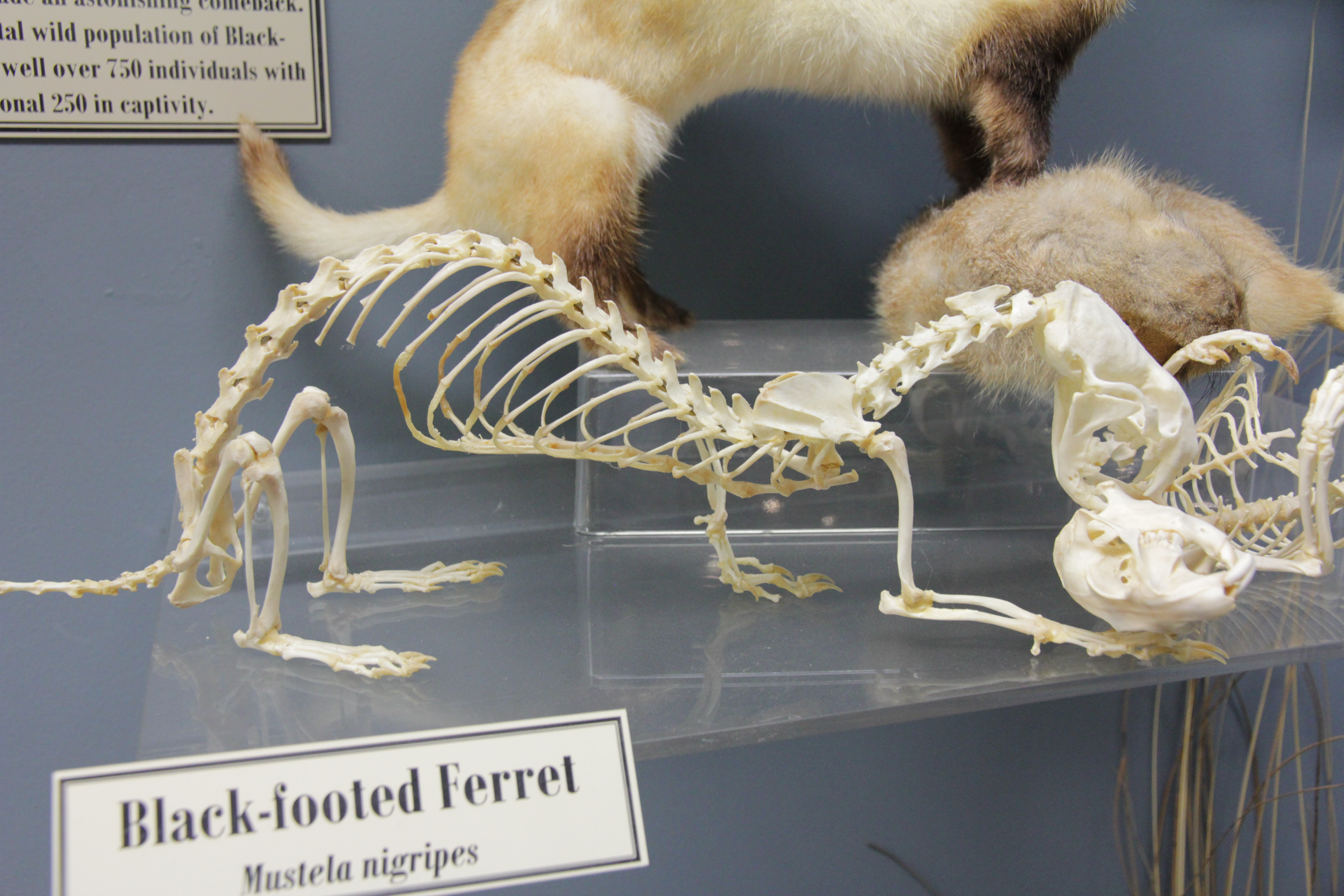 Image of a black-footed ferret skeleton attacking a prairie dog skeleton. On display at the Museum of Osteology.